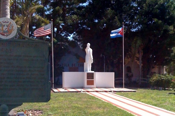 Statue of Jose Marti in Tampa